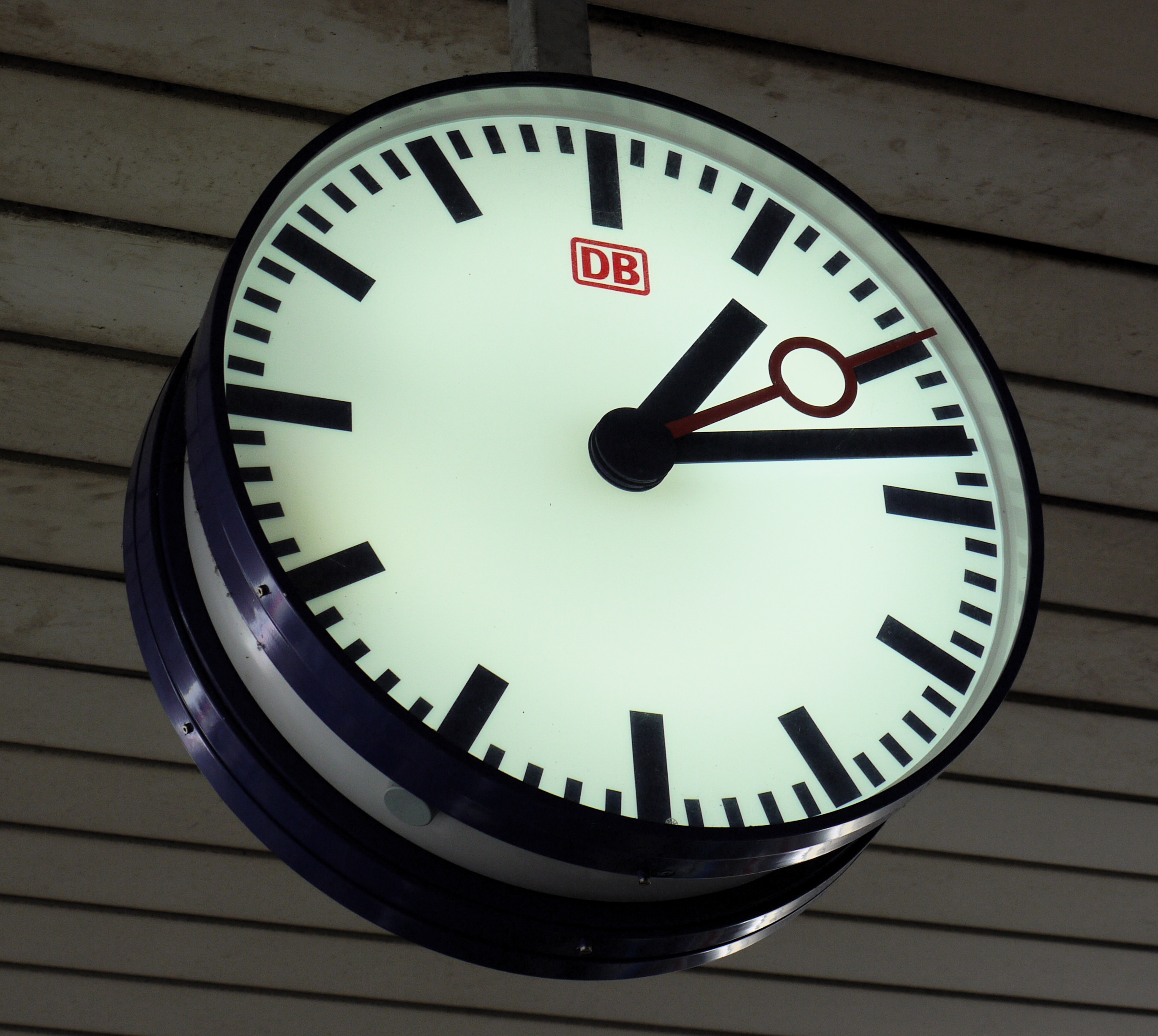 DB station clock at Basel Bad (the DB station in Basel, which is on Swiss territory and therefore very confusing)